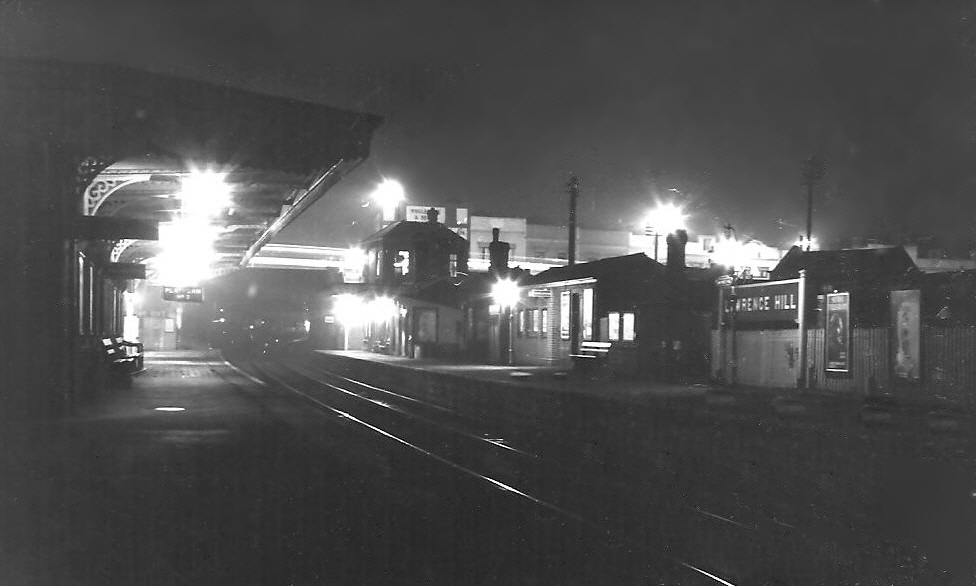 Lawrence Hill railway station in Bristol. This shot is taken looking down at the bridge that carried the road over the railway, it shows platforms 1 and 2. Behind me would have been the Midland Railway line to the North which crossed the Western lines Lawrence Hill is still open, but a shadow of its former self.